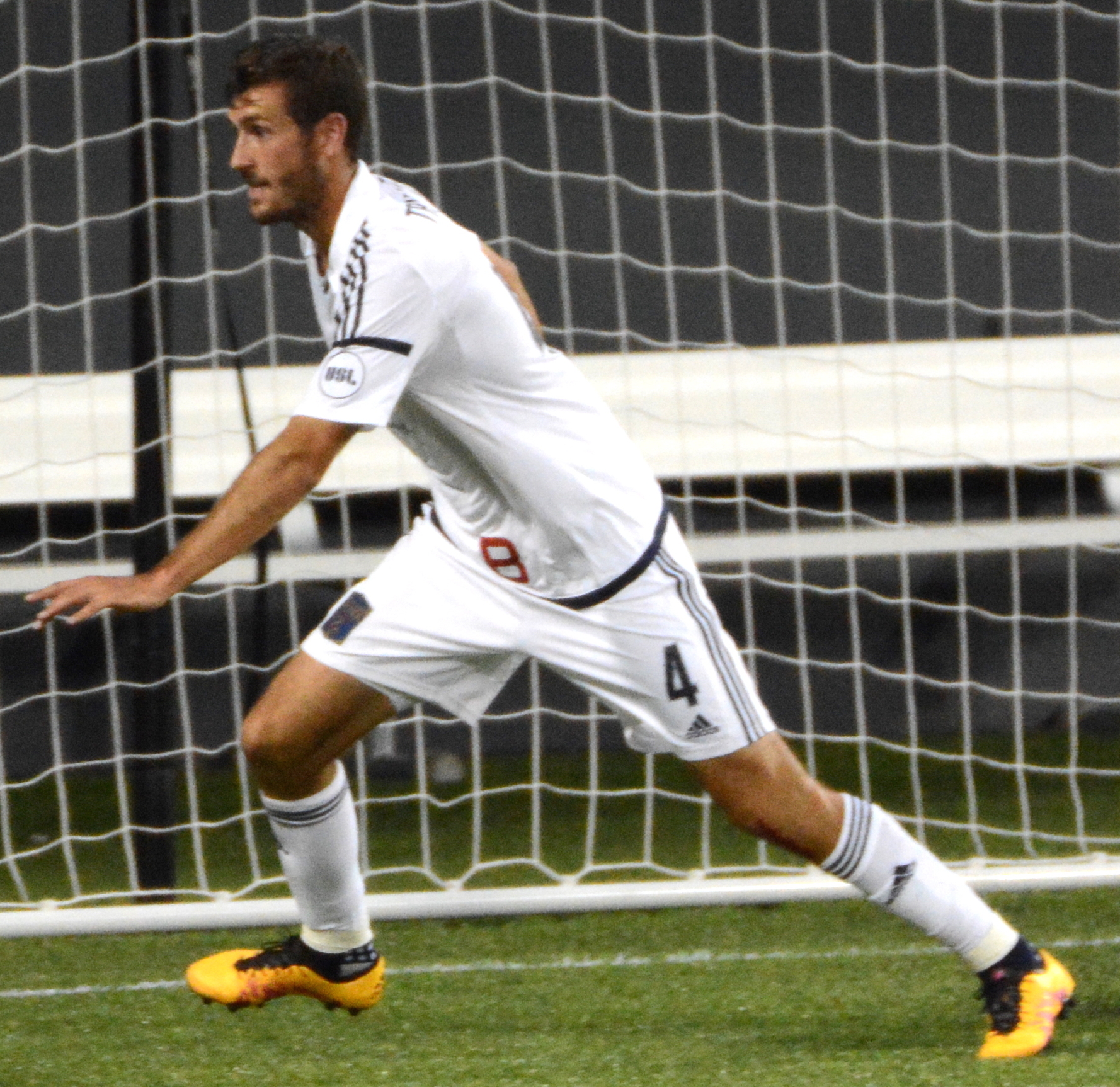 Ken Tribbett Taken during a match between FC Cincinnati and Bethlehem Steel FC at Nippert Stadium in Cincinnati, USA on May 20, 2017.